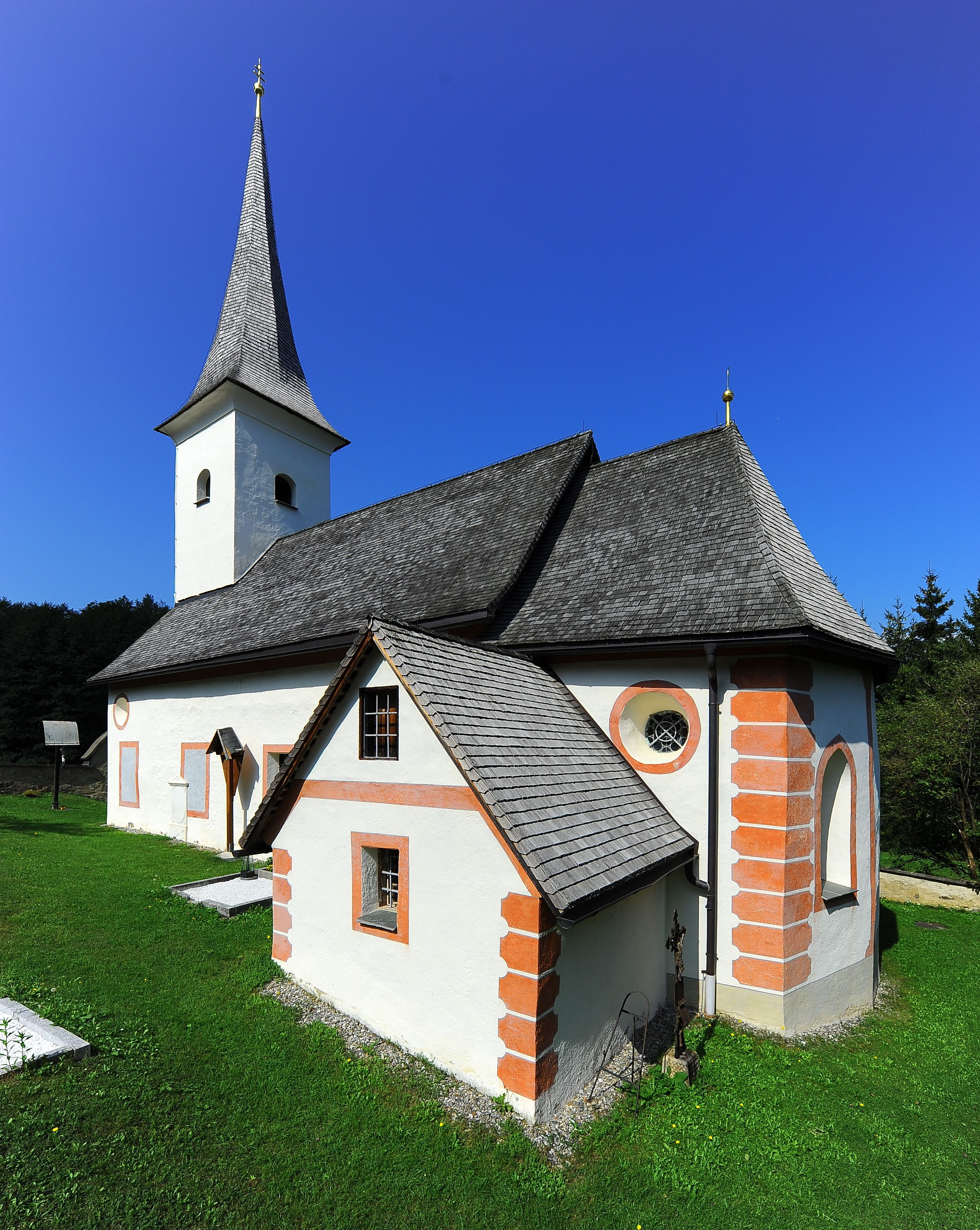 Subsidiary church Saint Martin at Karnberg #76, municipality Sankt Veit an der Glan, district Sankt Veit an der Glan, Carinthia / Austria / EU